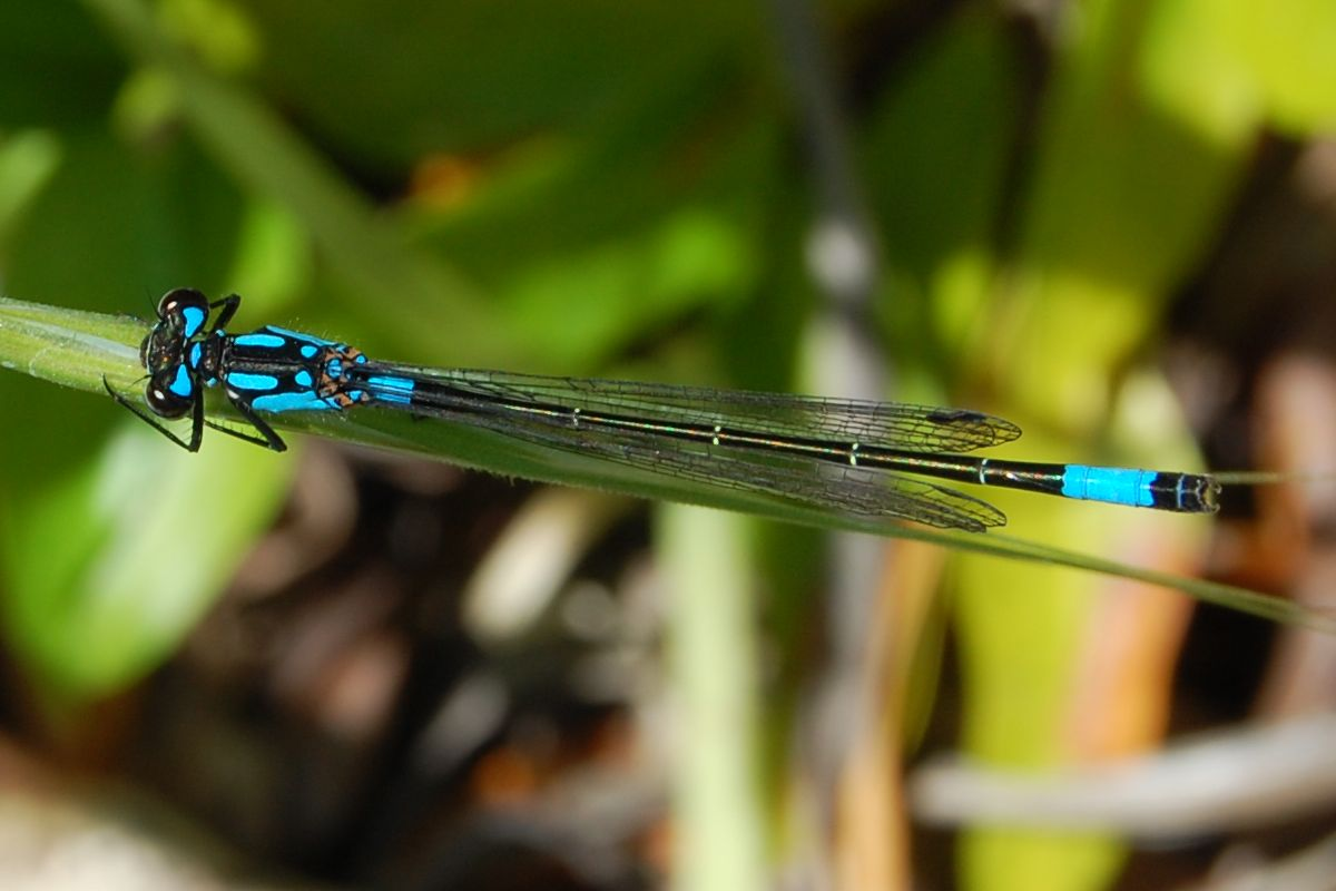 Exclamation damsel. Male. San Jose, California.